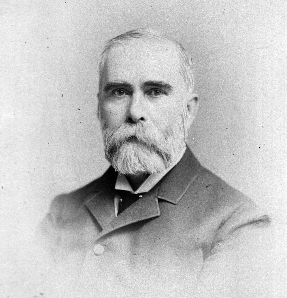 Robert Bartholow (or "Roberts"), American physician who experimented with electricity and the brain